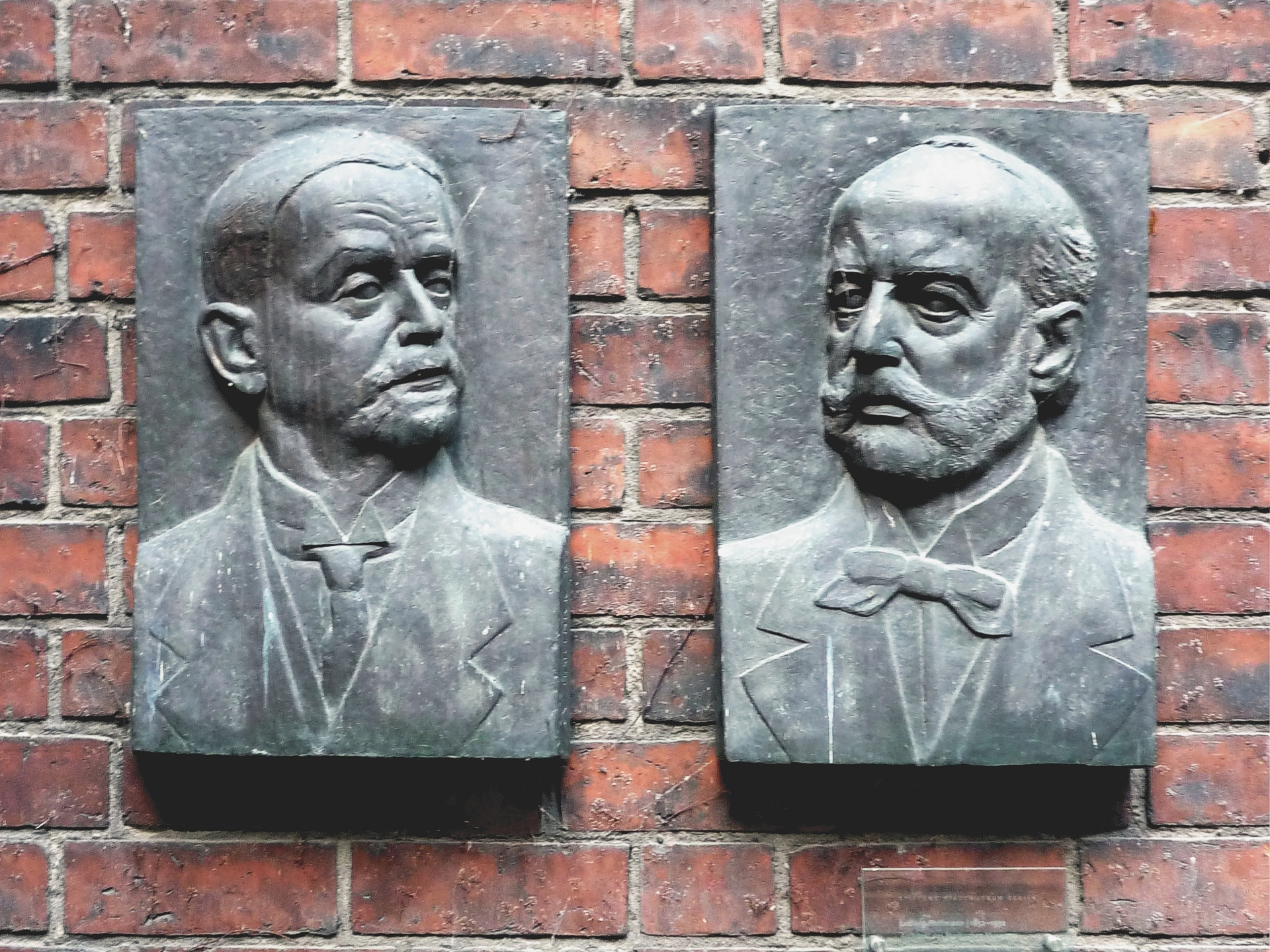 Maerkisches Museum Berlin. The reliefs depict Ludwig Hoffmann (1852-1932), architect of the building (left) and Ernst Friedel (1837-1918), first director of the museum. Sculptures by Evelyn Hartnick, 1992.